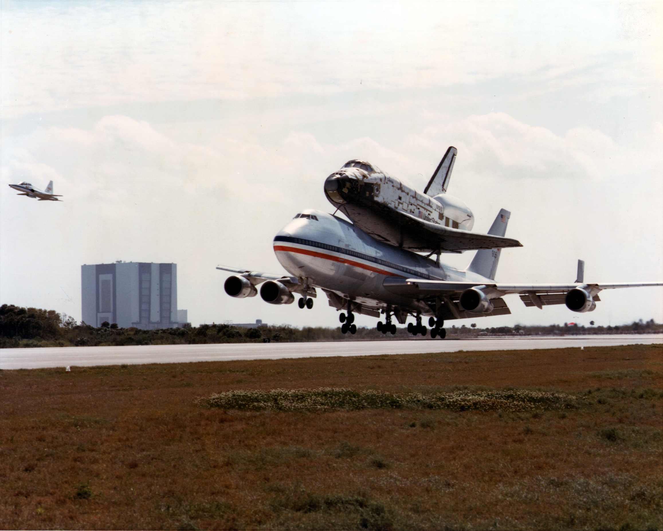 B 747 SCA airplane, with Columbia on board, just before touchdown at KSC. Left you can see an T-38 Talon chase aircraft.